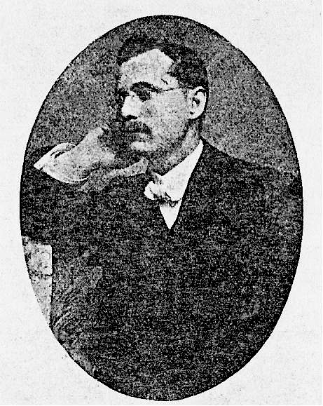 Photo of Nephi Anderson From Latter-day Saint Biographical Encyclopedia (1919)